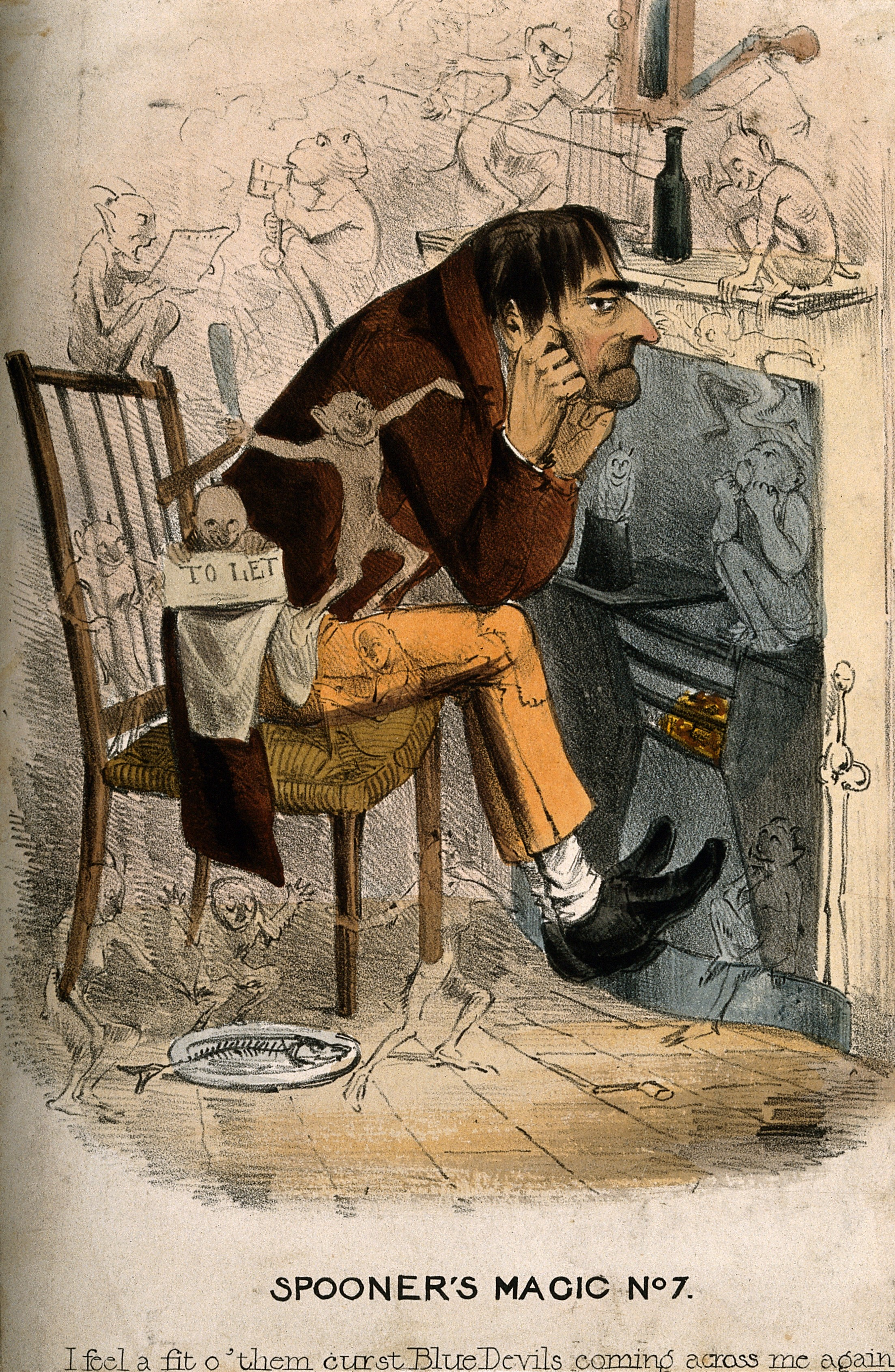 Topic-LCSH: Sadness. Devil. Poor. Genre/Technique: Caricatures. Lithographs.